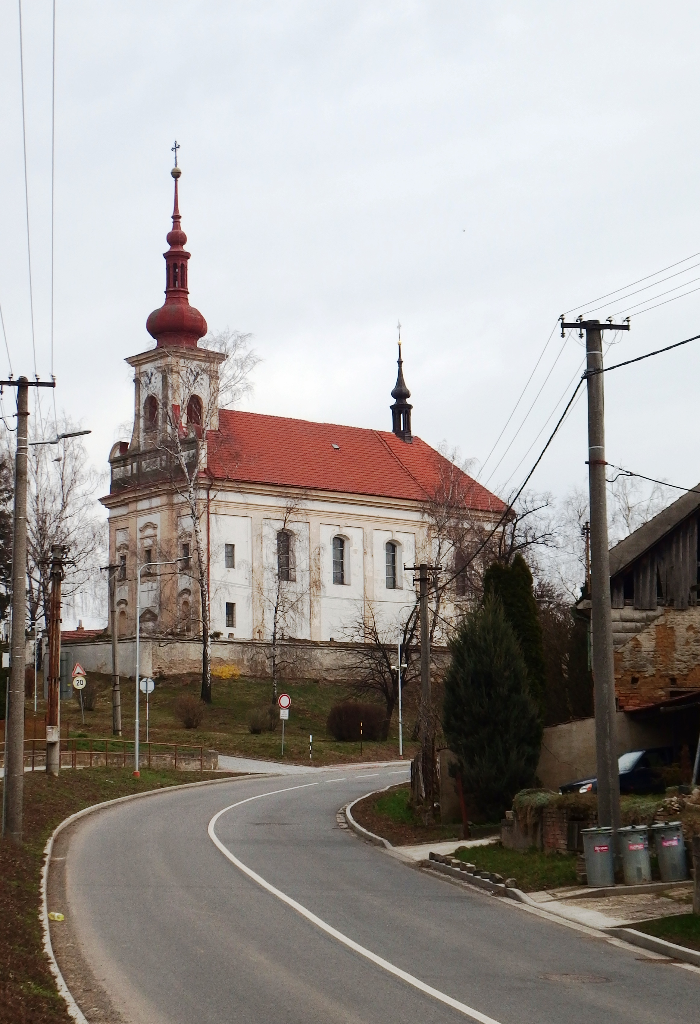 Počenice-Tetětice, Kroměříž District, Czech Republic, part Počenice.